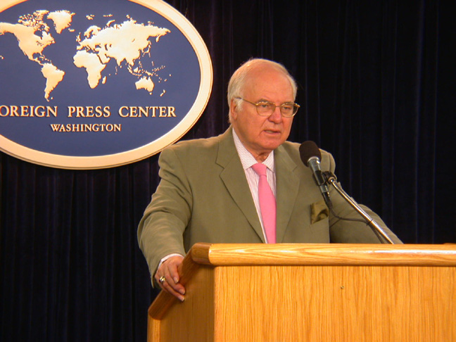 "Michael Novak, George Frederick Jewett Scholar in Religion, Philosophy and Public Policy, American Enterprise Institute, speaks at a Washington Foreign Press Center Briefing on 'Religion in American Life and Politics.'"